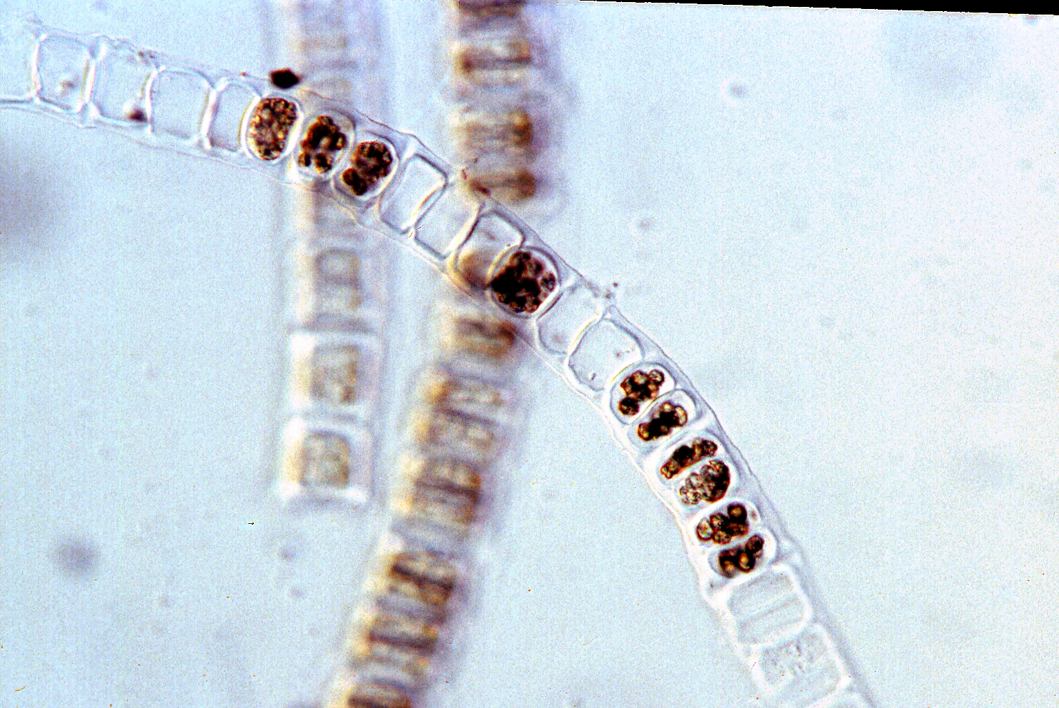 Ulothrix sp.